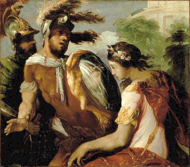 Rinaldo and the Mirror-Shield